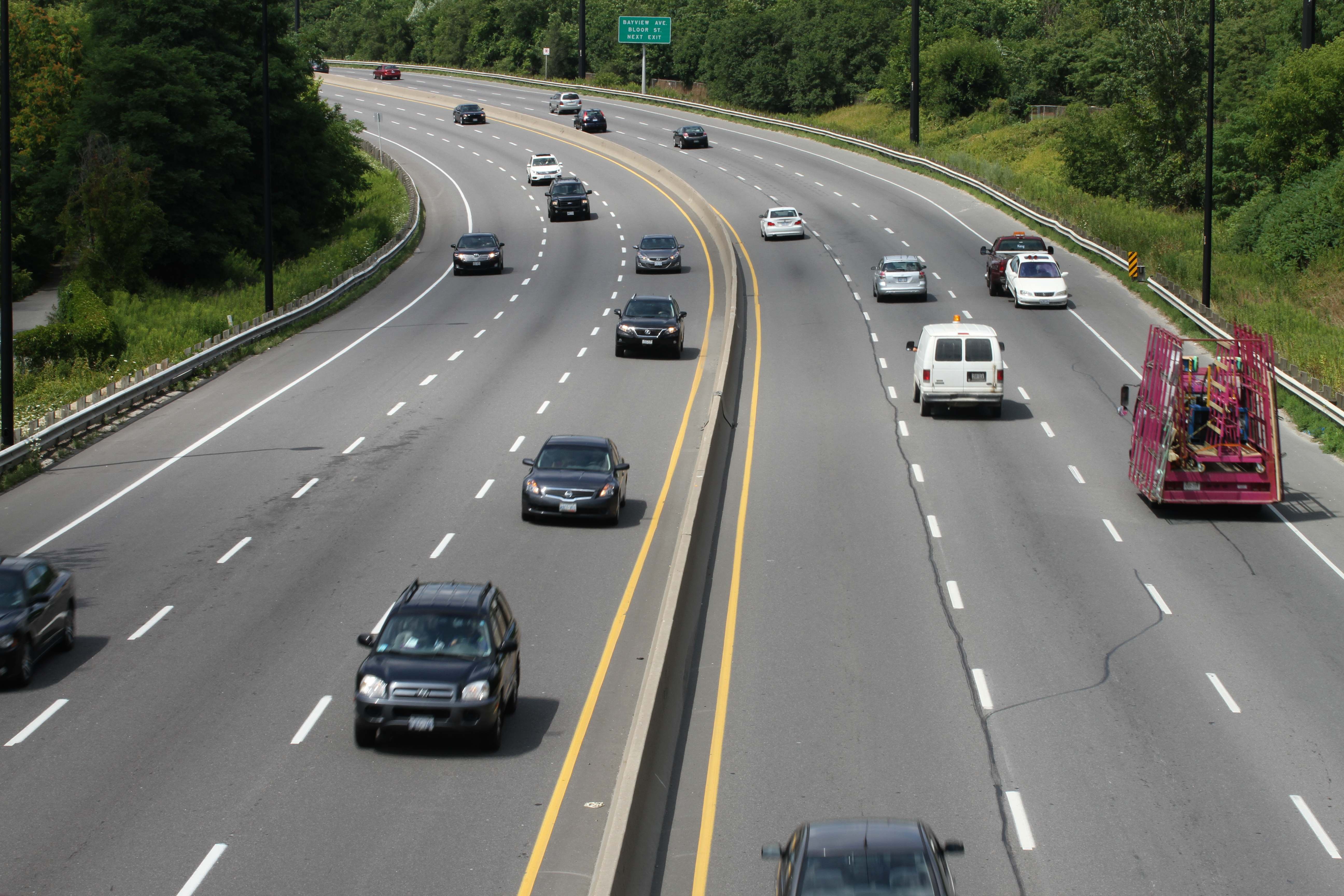 Looking northbound from the bridge between the Riverdale Parks.